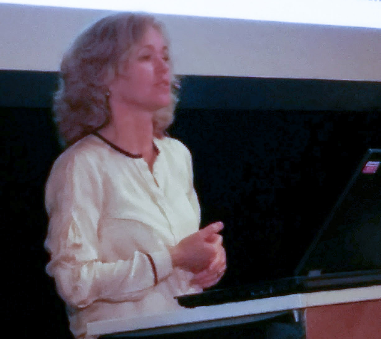 Anja Cetti Andersen holding the Rosseland Lecture 2015 at the University of Oslo Science Library